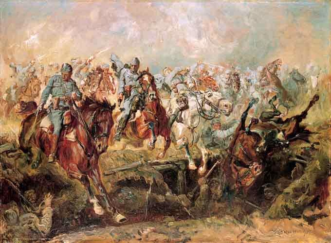 "Szarża pod Rokitną"